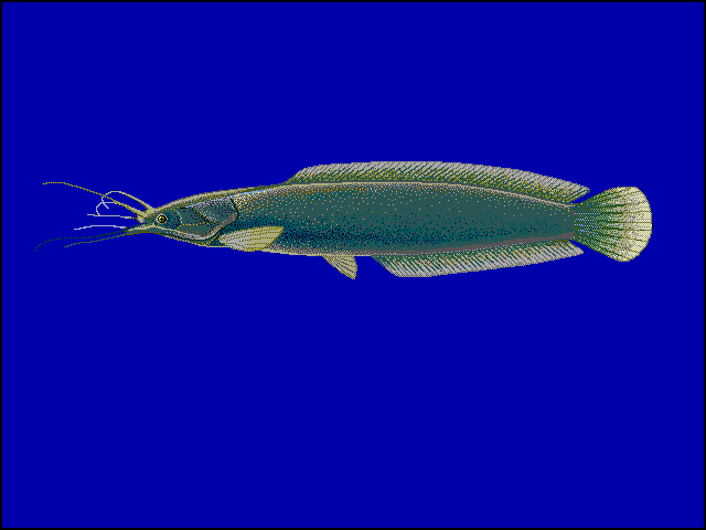 Clarias batrachus is a drawing by former FishBase staff member Robbie N. Cada. Drawings done by Robbie Cada are public domain and can be used freely, however, FishBase would appreciate a proper indication of the source.